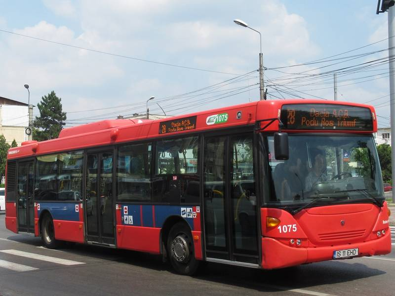 Scania CN230UB OmniCity (1075) on route 28 in Iași (Romania)